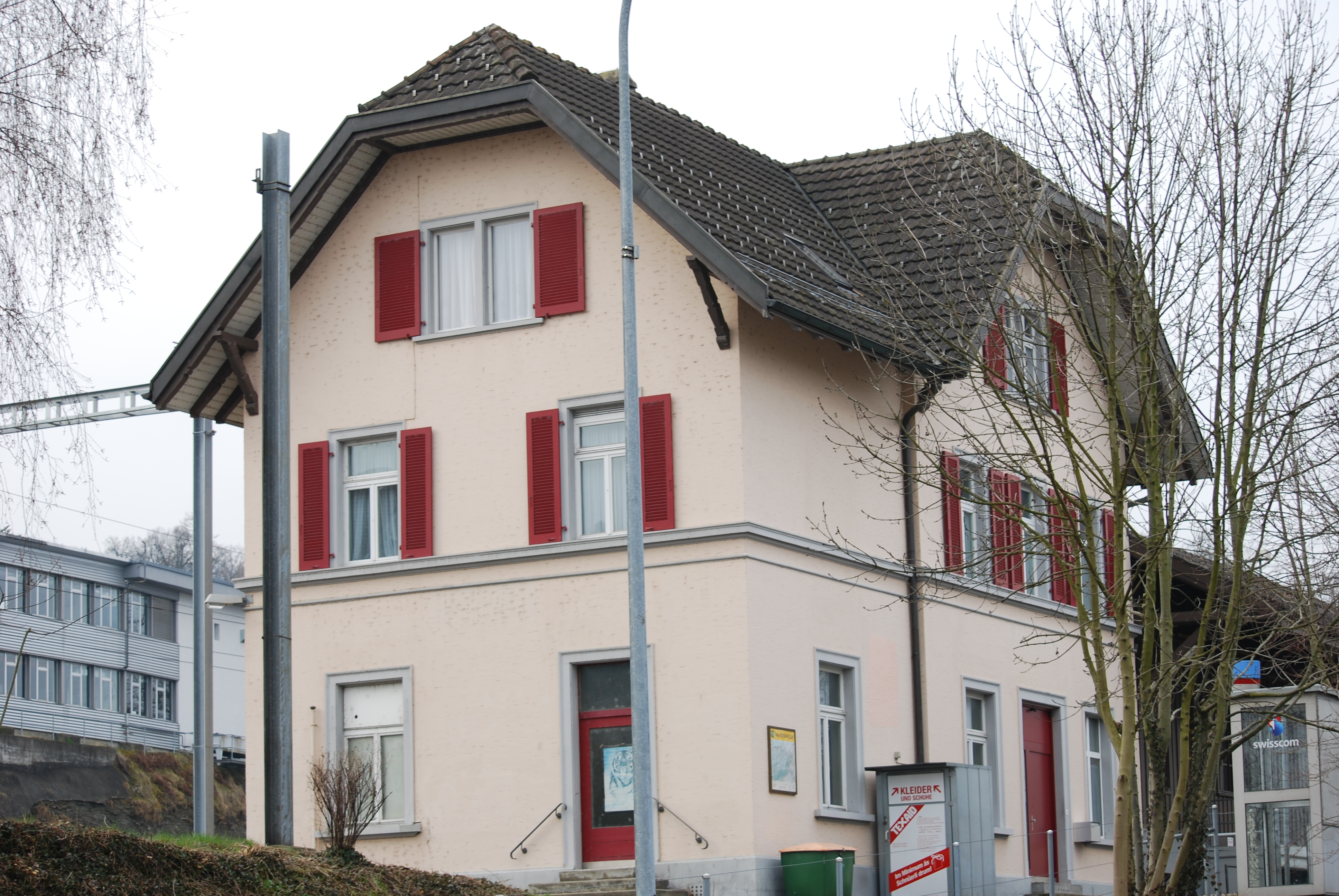 Train station of Staad, municipality of Thal, canton of St. Gallen, Switzerland